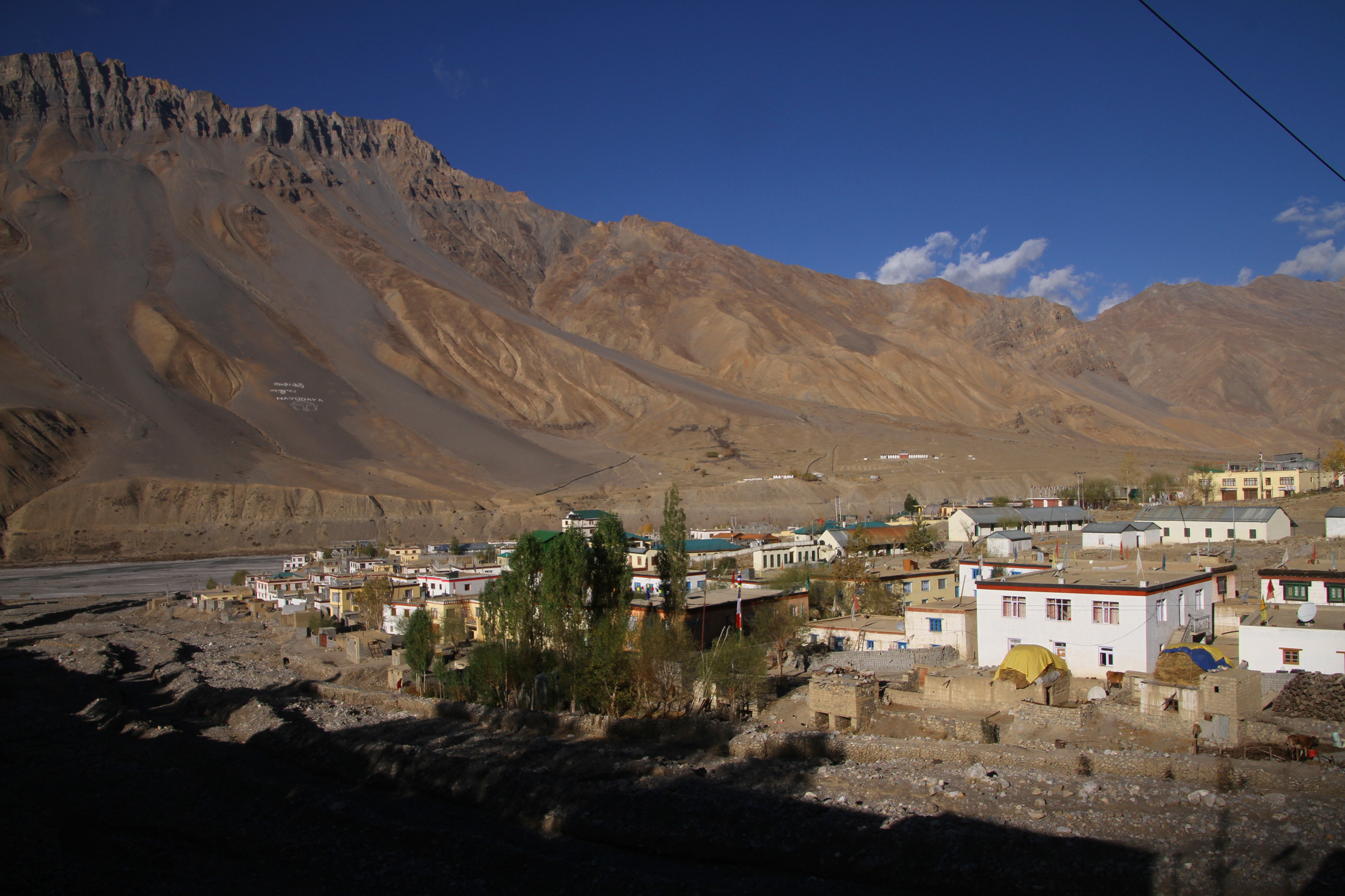 Kaza in Spiti valley in Himachal Pradesh in India.